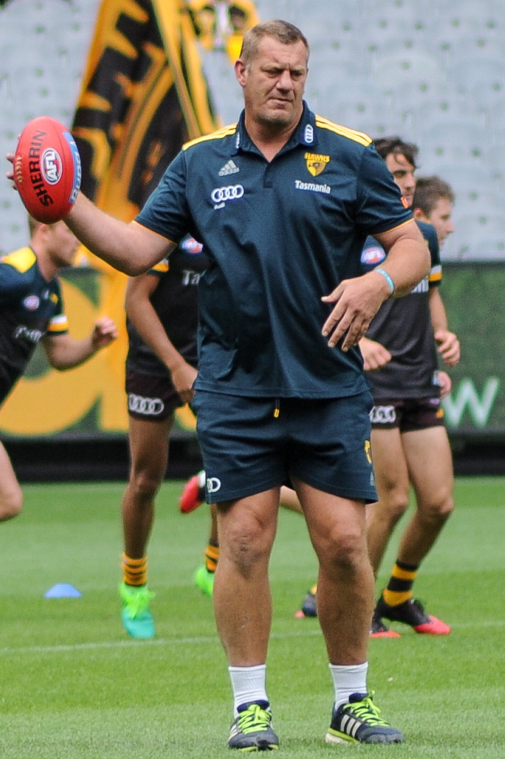 Damian Monkhorst during the AFL round two match between Hawthorn and Adelaide on 1 April 2017 at the Melbourne Cricket Ground in Melbourne, Victoria.